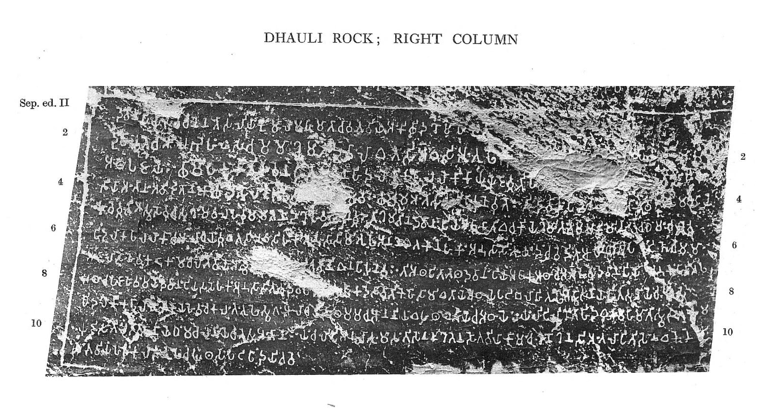 Second Separate Major Rock Edict version from Dhauli